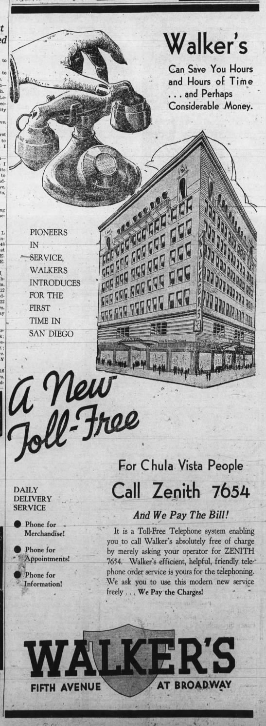 Advertisement for Walker's (Walker Scott) department store, 1935